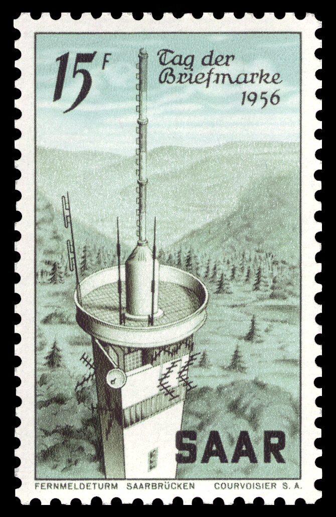 International Stamp Day 1956